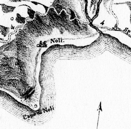 Repubblica di Noli (Liguria)